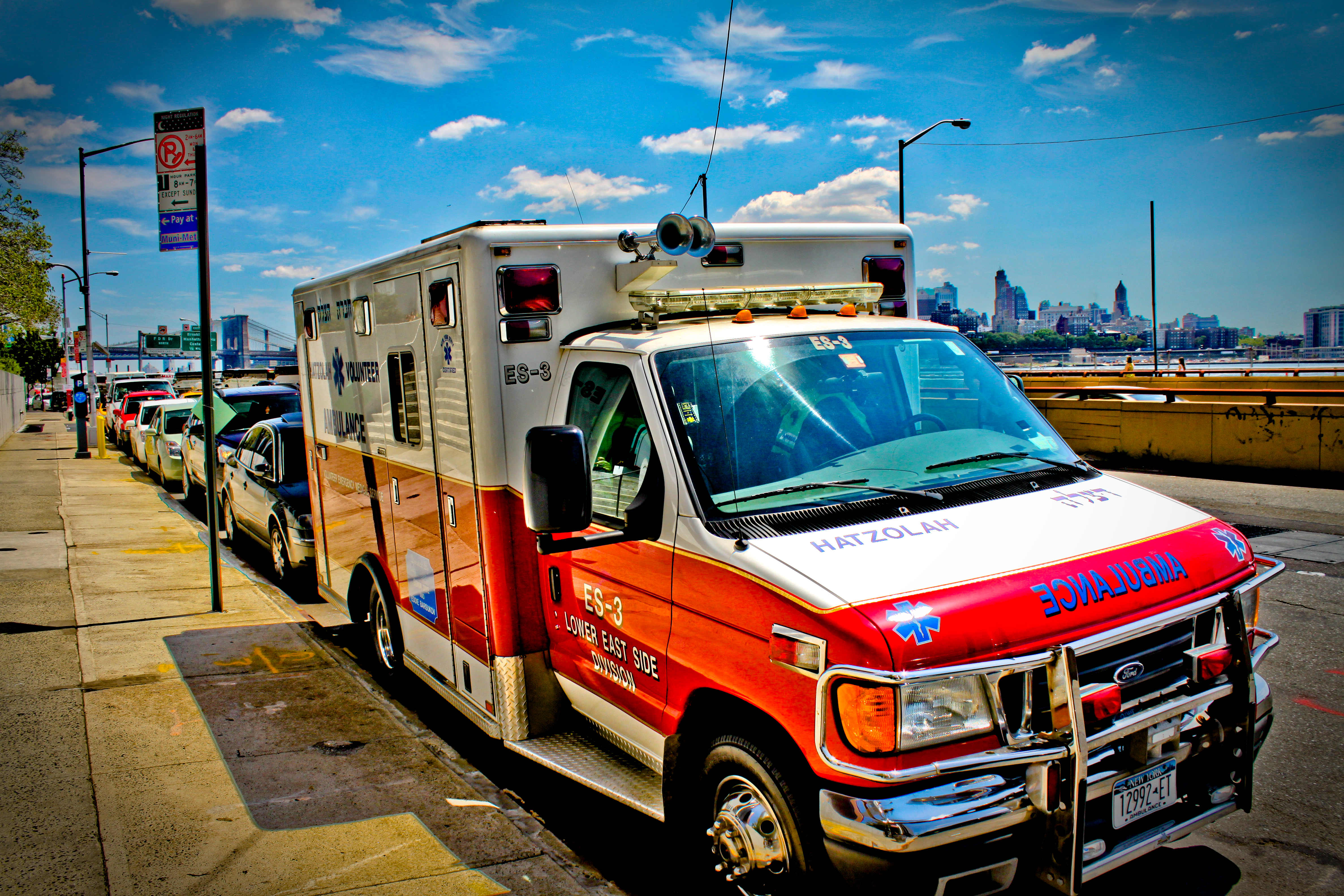 Lower East Side Hatzolah ambulance, seen not too far from the Staten Island ferry terminal in Manhattan, New York.